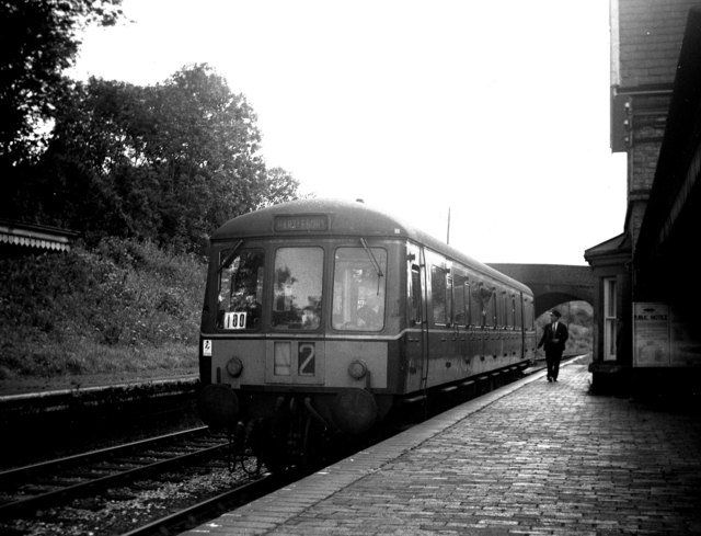 Coalport railway station, Coalport West railway station, Shropshire